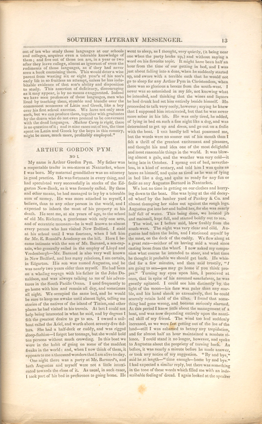 First publication of the first installment of The Narrative of Arthur Gordon Pym in the Southern Literary Messenger, January 1837. This copy is privately owned as part of the Susan Jaffe Tane Collection.